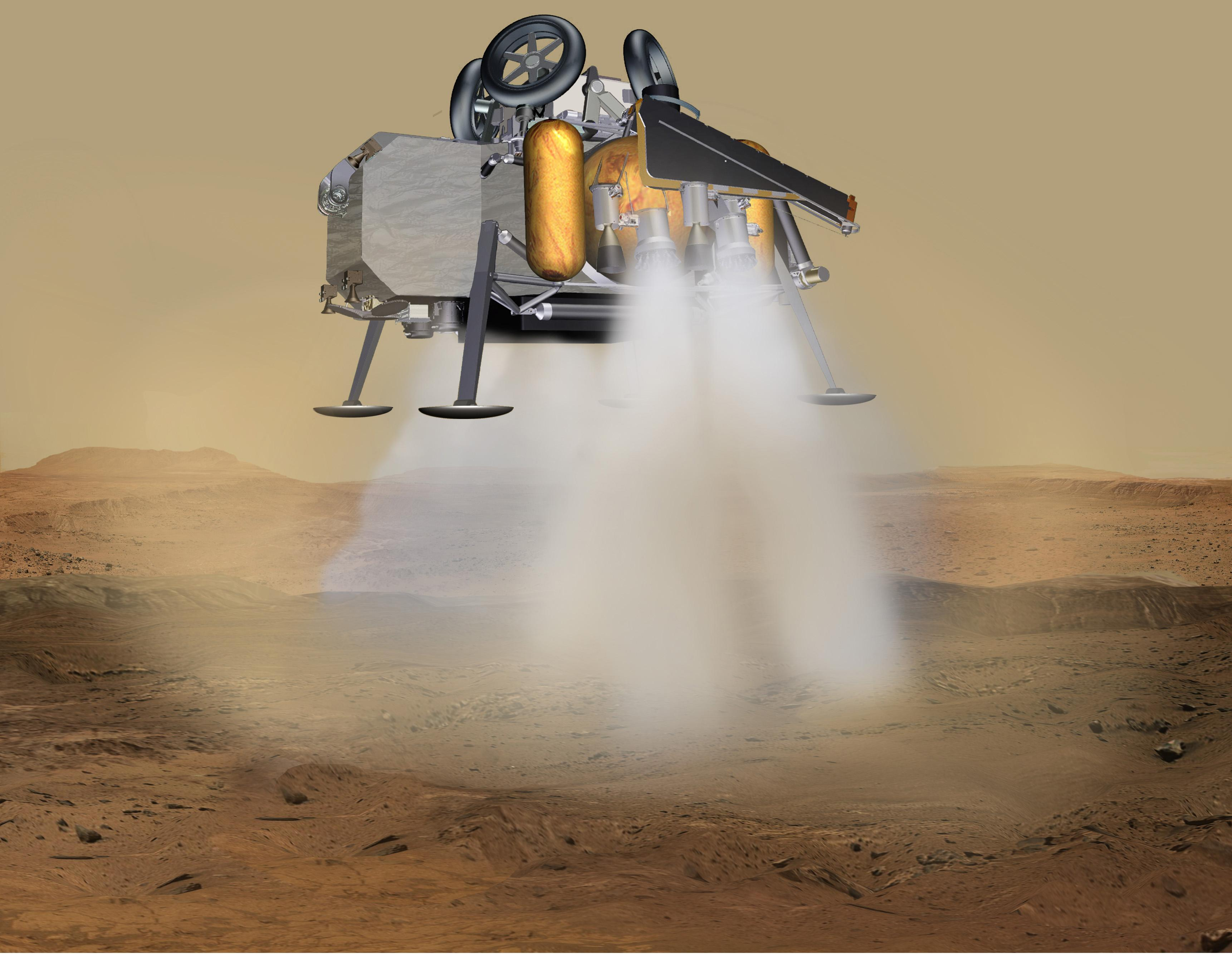 PIA23494: Mars Sample Return Lander Touchdown (Artist's Concept) In this illustration of a Mars sample return mission concept, a lander carrying a fetch rover touches down on the surface of Mars. NASA and the European Space Agency (ESA) are solidifying concepts for a Mars sample return mission after NASA's Mars 2020 rover collects rock and soil samples, storing them in sealed tubes on the planet's surface for future return to Earth. NASA will deliver a Mars lander in the vicinity of Jezero Crater, where Mars 2020 will have collected and cached samples. The lander will carry a NASA rocket (the Mars Ascent Vehicle), along with ESA's Sample Fetch Rover that is roughly the size of NASA's Opportunity Mars rover. The fetch rover will gather the cached samples and carry them back to the lander for transfer to the ascent vehicle; additional samples could also be delivered directly by Mars 2020. The ascent vehicle will then launch a special container holding the samples into Mars orbit. ESA will put a spacecraft in orbit around Mars before the ascent vehicle launches. This spacecraft will rendezvous with and capture the orbiting samples before returning them to Earth. NASA will provide the payload module for the orbiter.